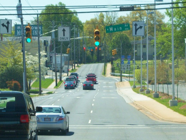 Downtown Gastonia. Traffic on S. Chester St. (US 321) at W. Main St. facing south towards W. Franklin Blvd. (US 29/US 74/NC 274), with Oakwood Cemetery on the right, mid-background.